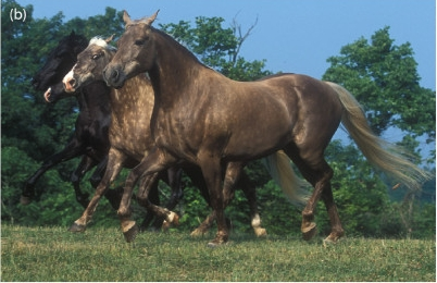 Phenotypic description of Silver colored horses. (Horse coat colors: Silver dapple gene) B. Two Black Silver Rocky Mountain Horses. Photo: Bob Langrish.